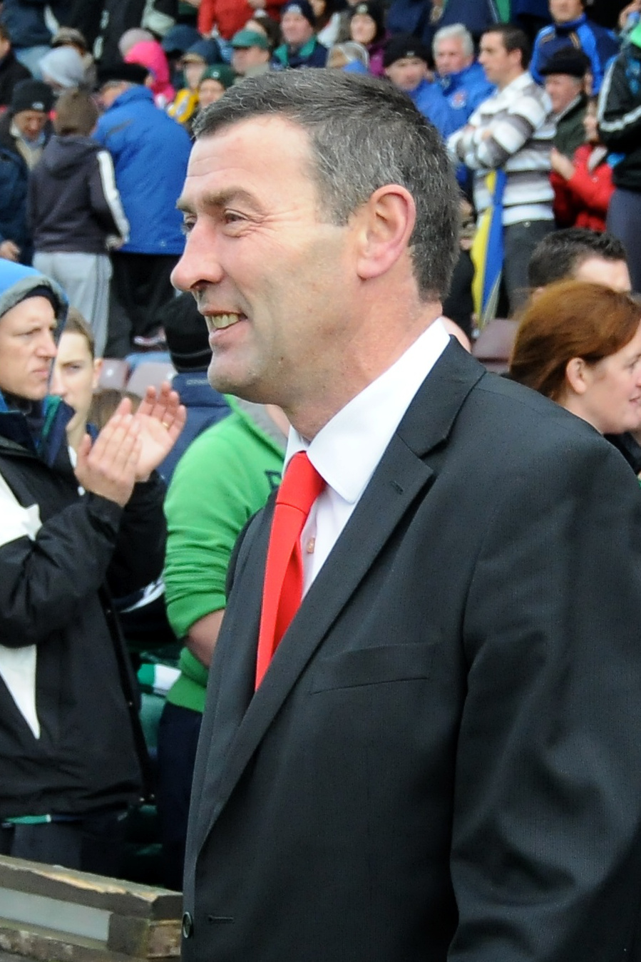 Michael Coleman at the 2013 Galway Senior Hurling county final where the Abbeyknockmoy championship winning team of 1998 was honoured